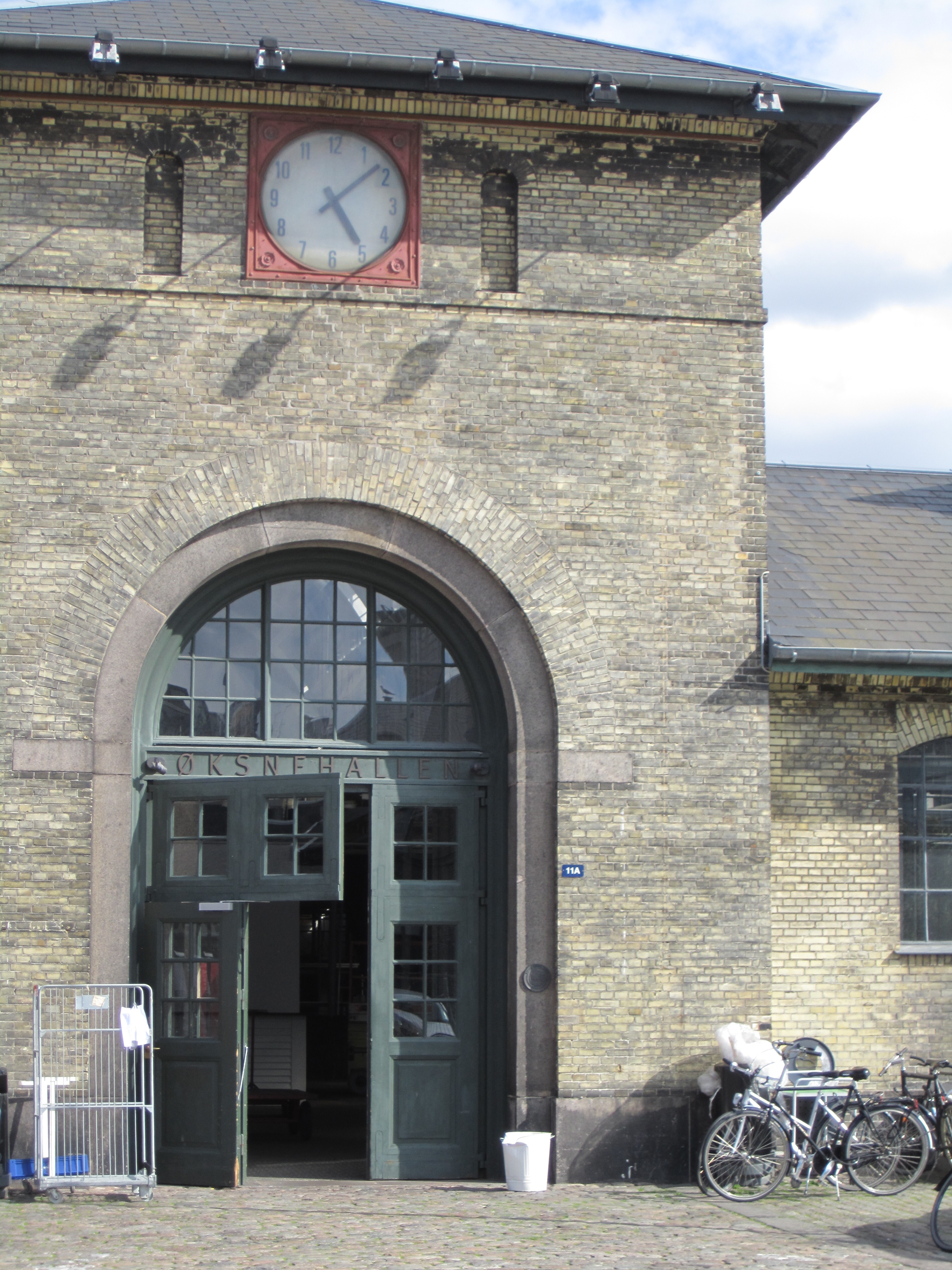 Main entrance of Øksnehallen, part of the Meat District, at Halmtorvet in Copenhagen, Denmark